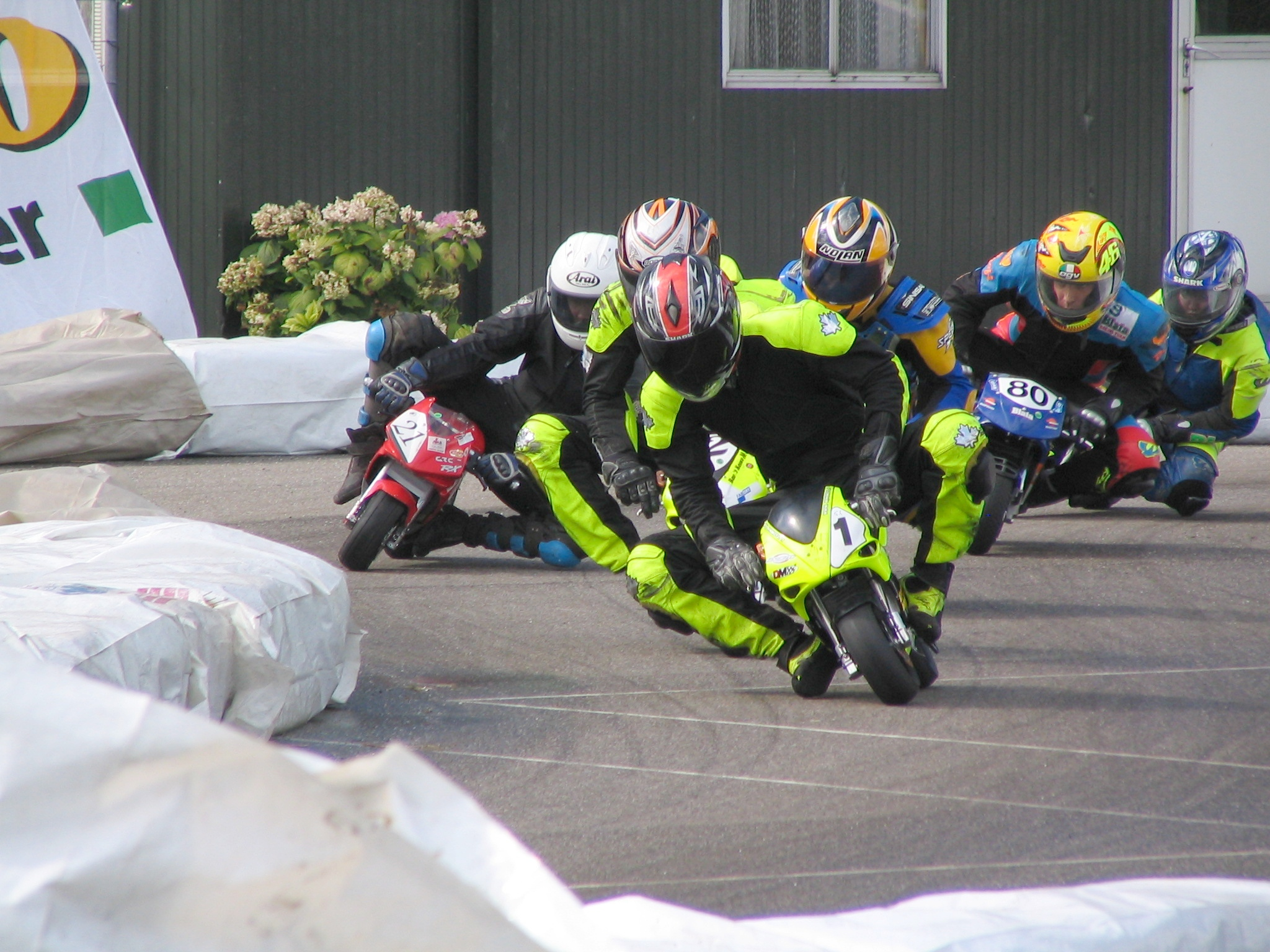 Close racing at Mill (NL)